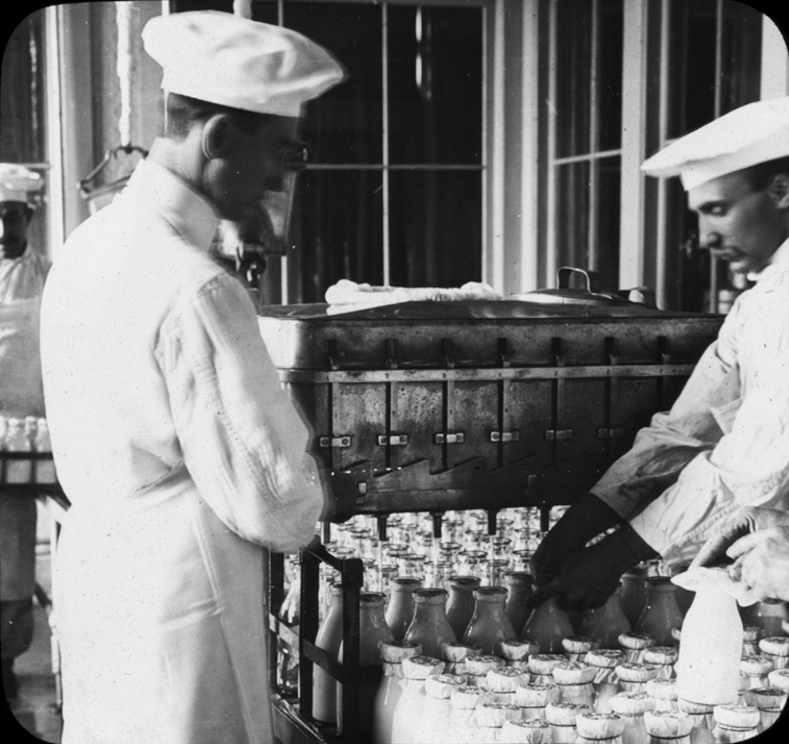 Bottling milk at Briarcliff Farms. First published in 1906; better copy from here.